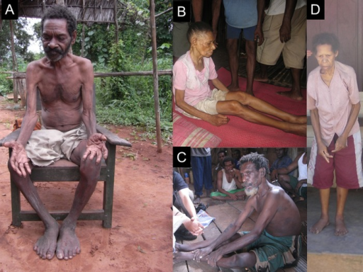 Patients with amyotrophic lateral sclerosis (picture A), ALS-parkinsonism (B & C) and parkinsonism (D).